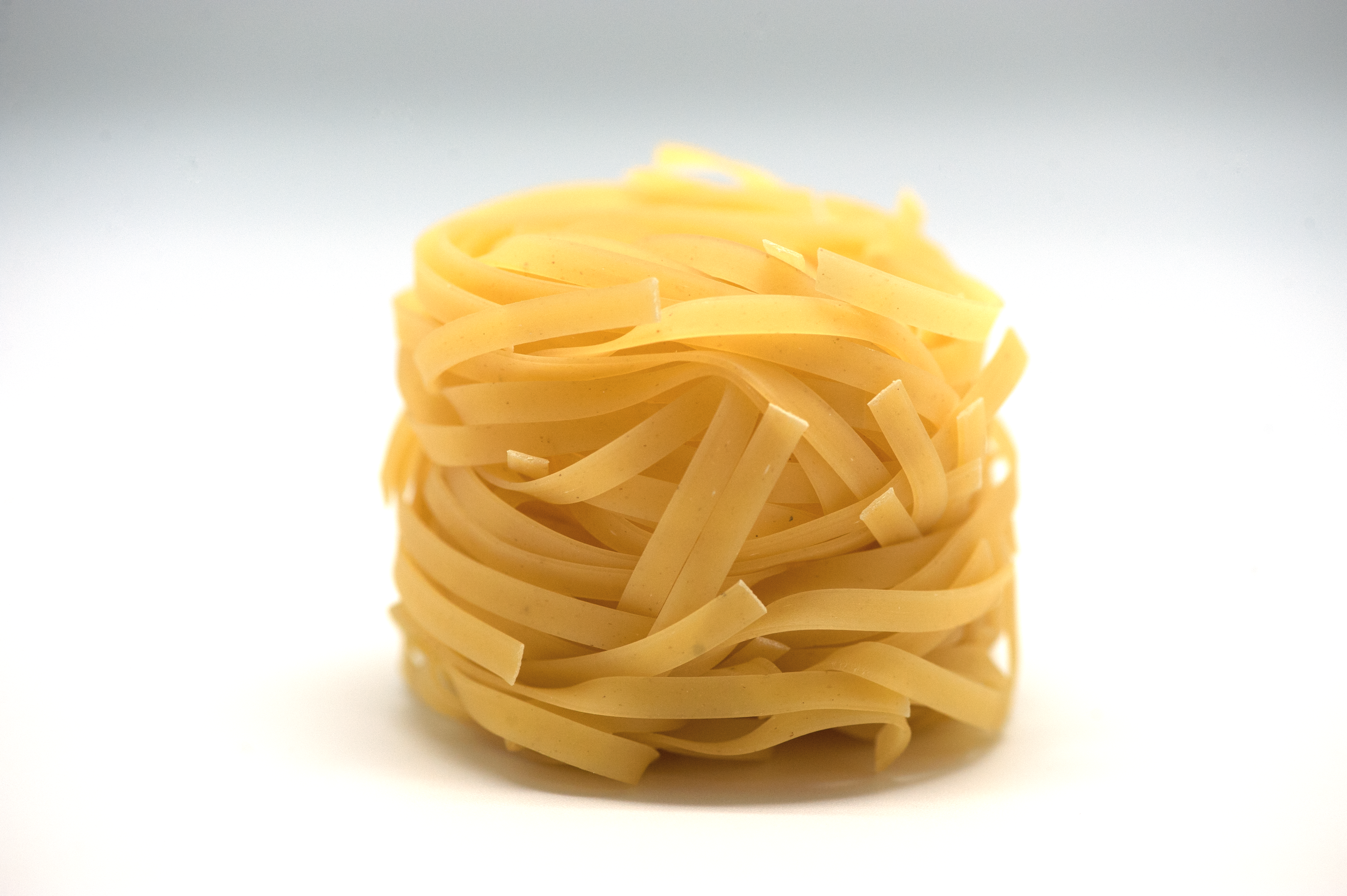 Taglioni are a type of ribbon-cut pasta